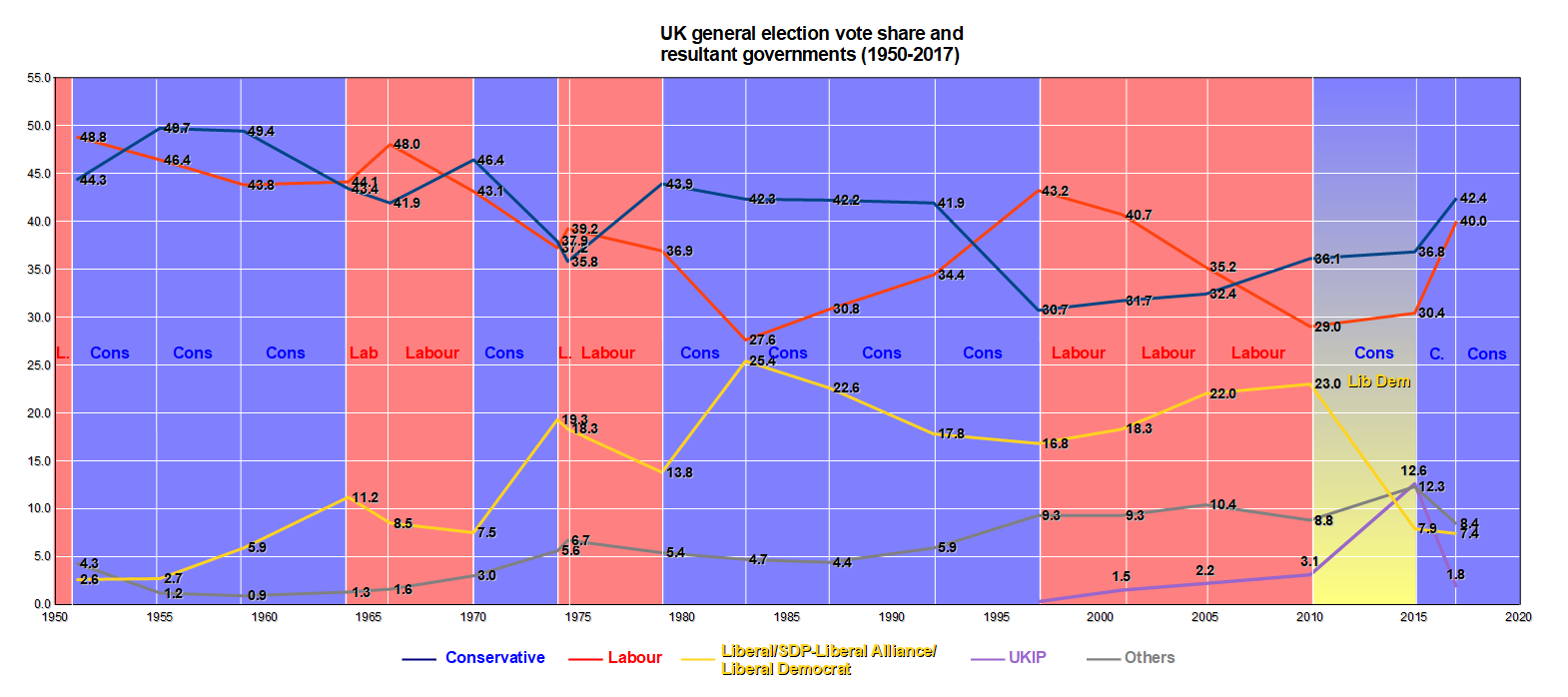 Graph showing UK general election results from 1950 to 2017 and the resultant governments following those elections.